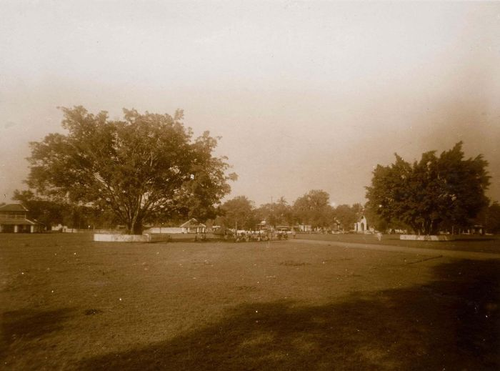 Alun-alun with waringin trees